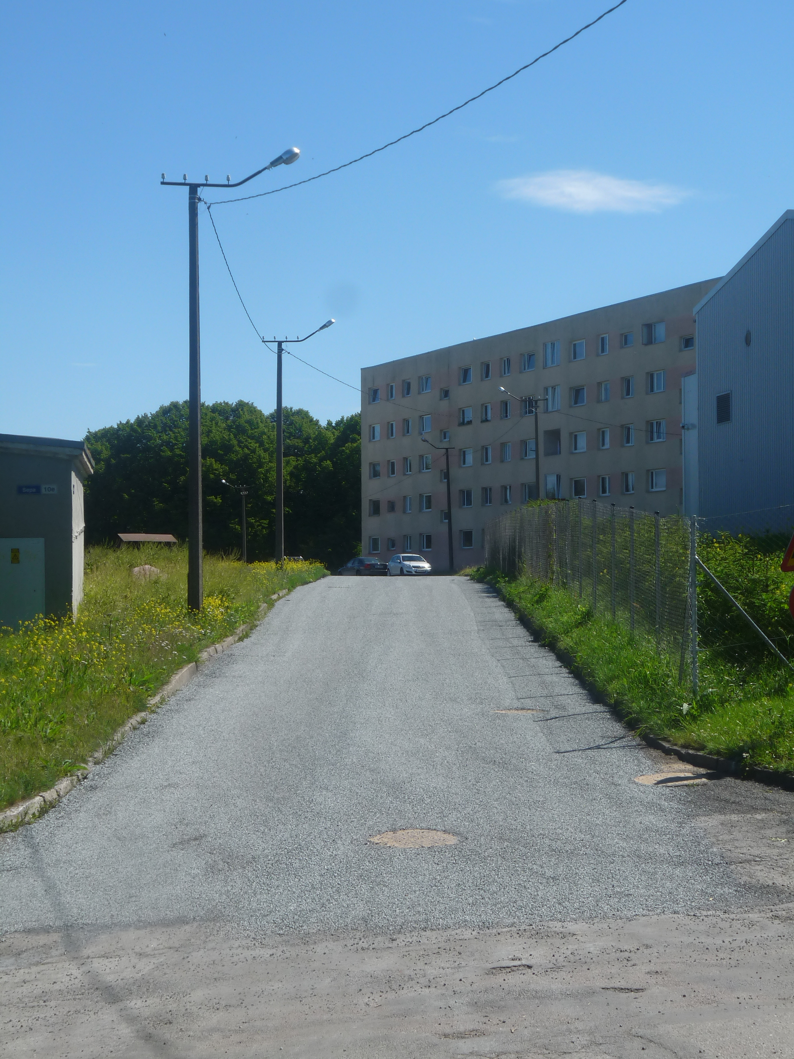 Pardiloigu street in Tallinn, Estonia